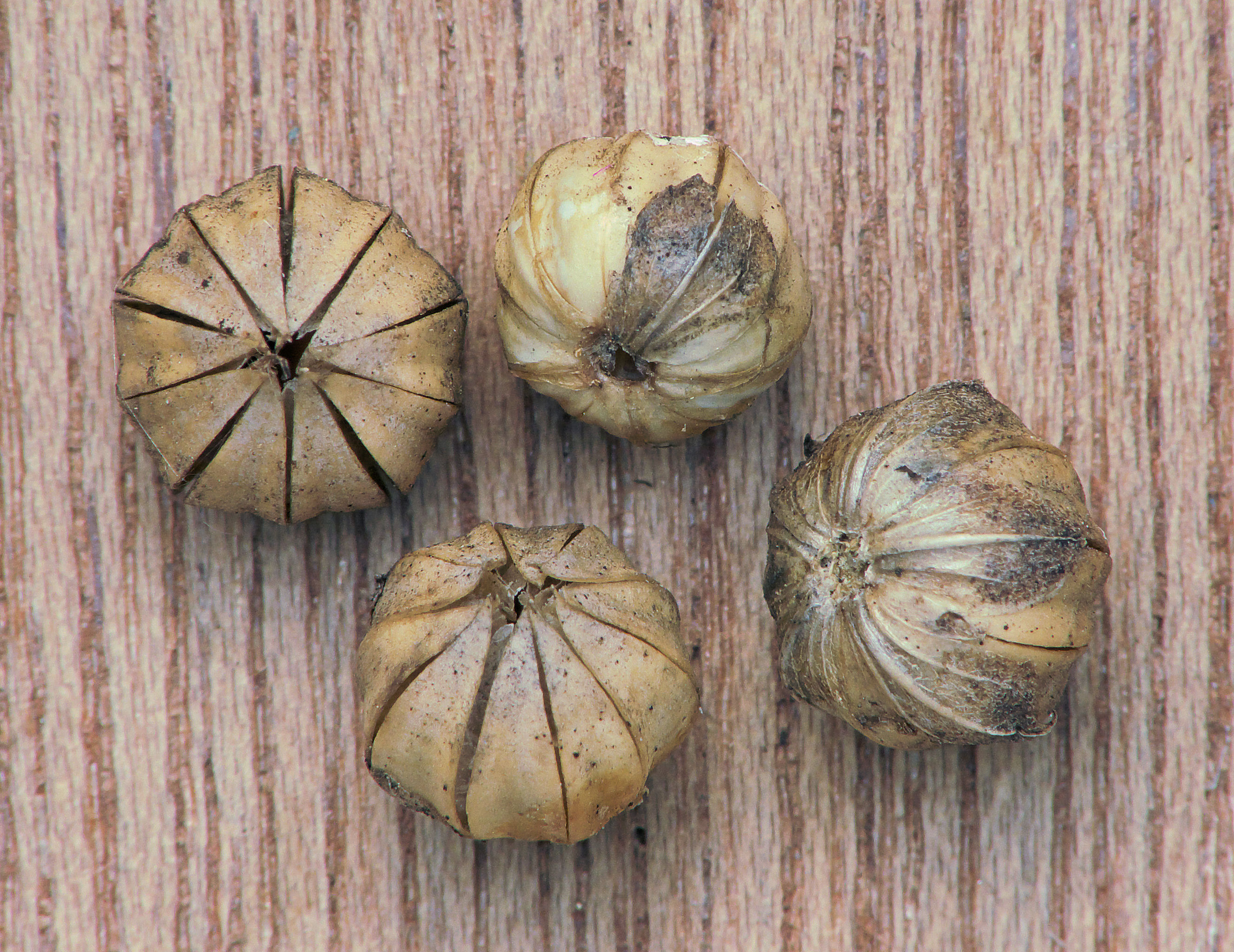 Linum usitatissimum seed capsules